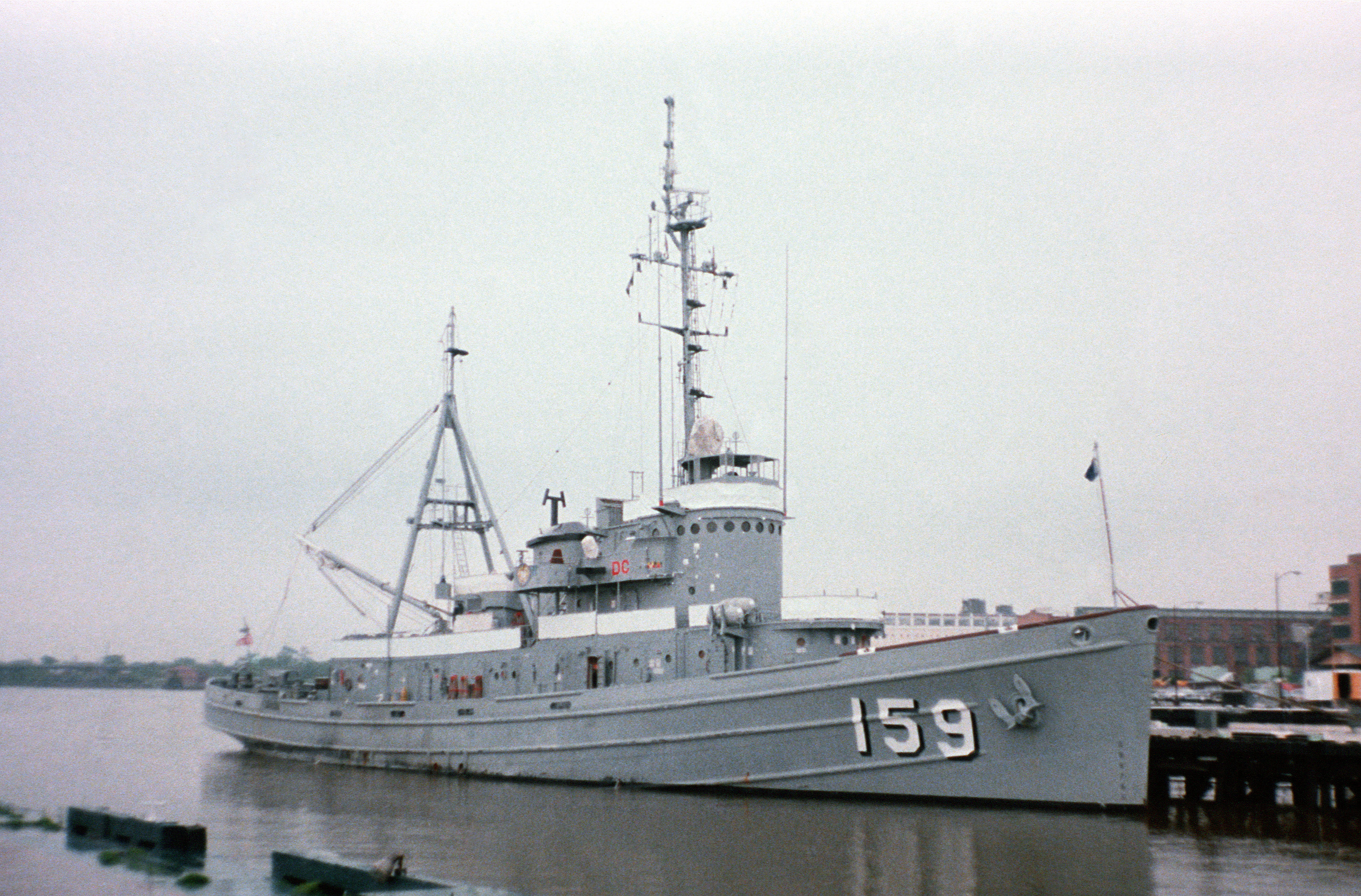 The U.S. Navy Reserve fleet tug USS Paiute (ATF-159) lies tied up at Pier No. 3 at the Washington Navy Yard Wasington, D.C. (USA), on 1 May 1981.